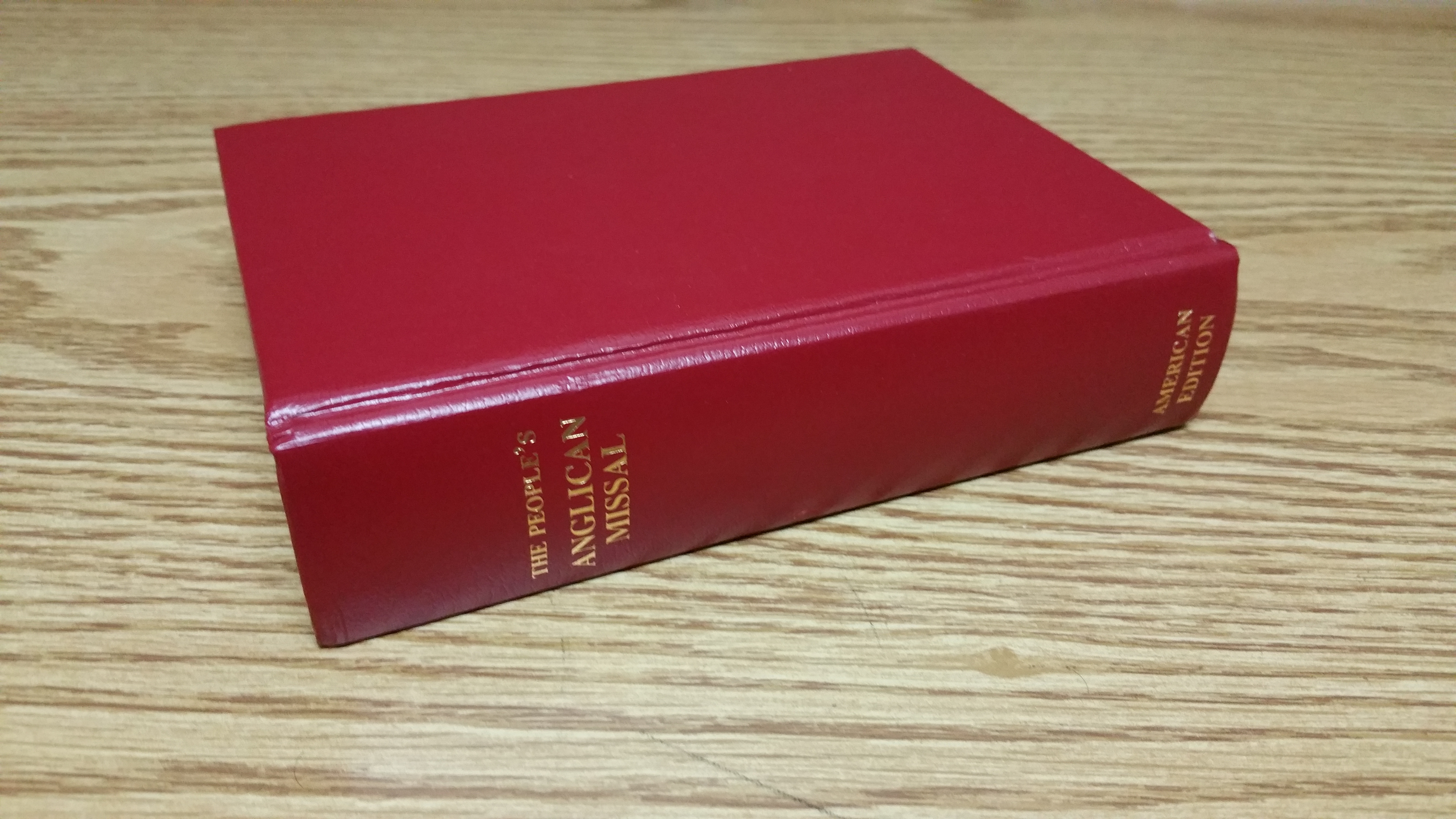 The image is of a pew edition of the Anglican Missal sitting on a desk in the vestry of Anglican church. I clicked this picture on May 21, 2015.